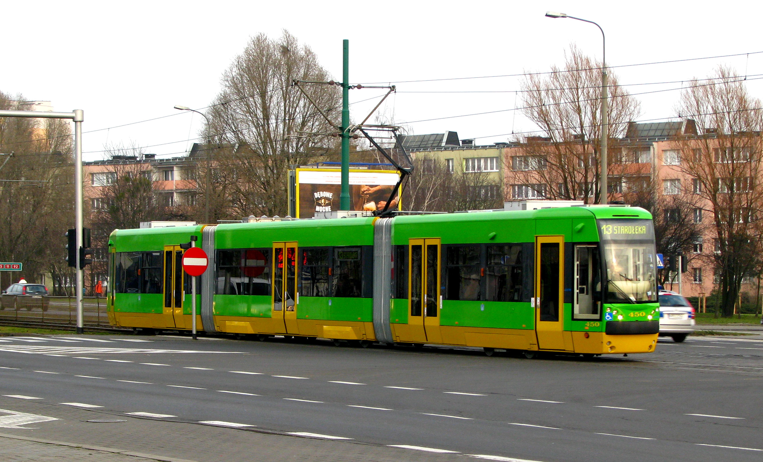 FPS 118N PUMA tram (#450) in Poznań, Poland. Product of HCP-FPS Poznań.